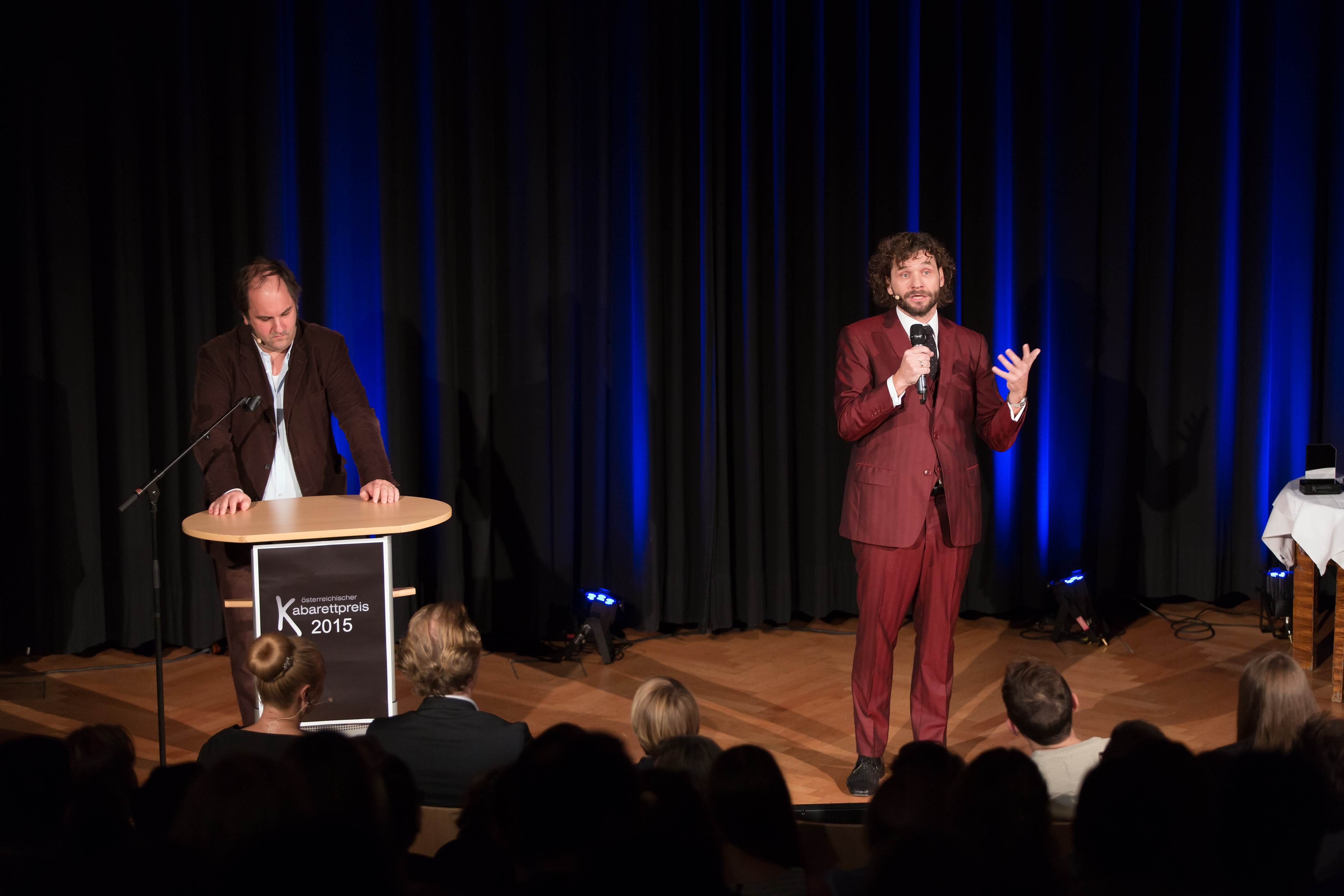 Martin Puntigam and Matthias Egersdörfer at the Austrian Cabaret Award 2015 at Urania in Vienna, Austria.